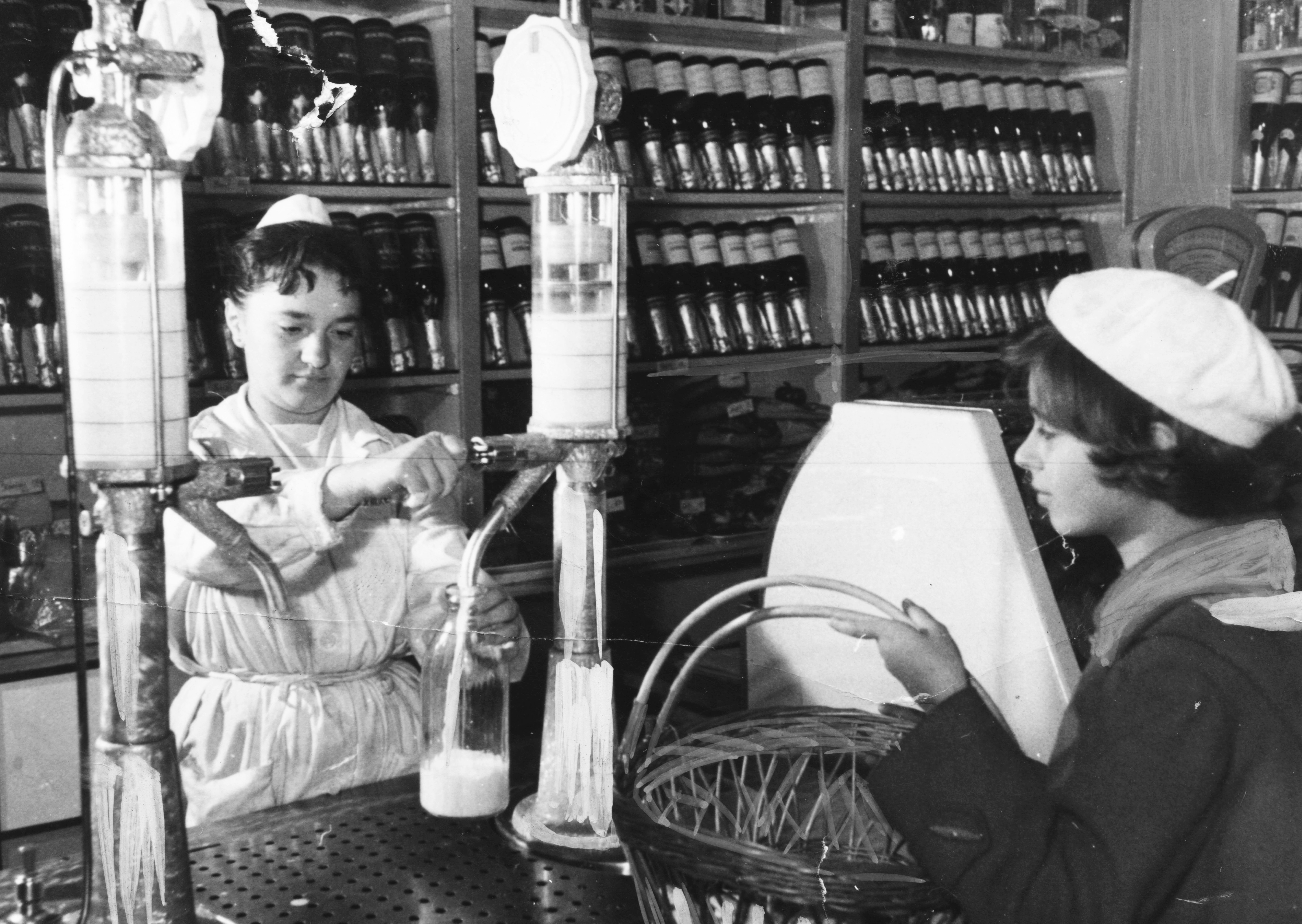 Tags: shop interior, milk bottle, basket